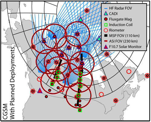 Canadian Geospace Monitoring ( final instrument configuration (anticipated by 2009).